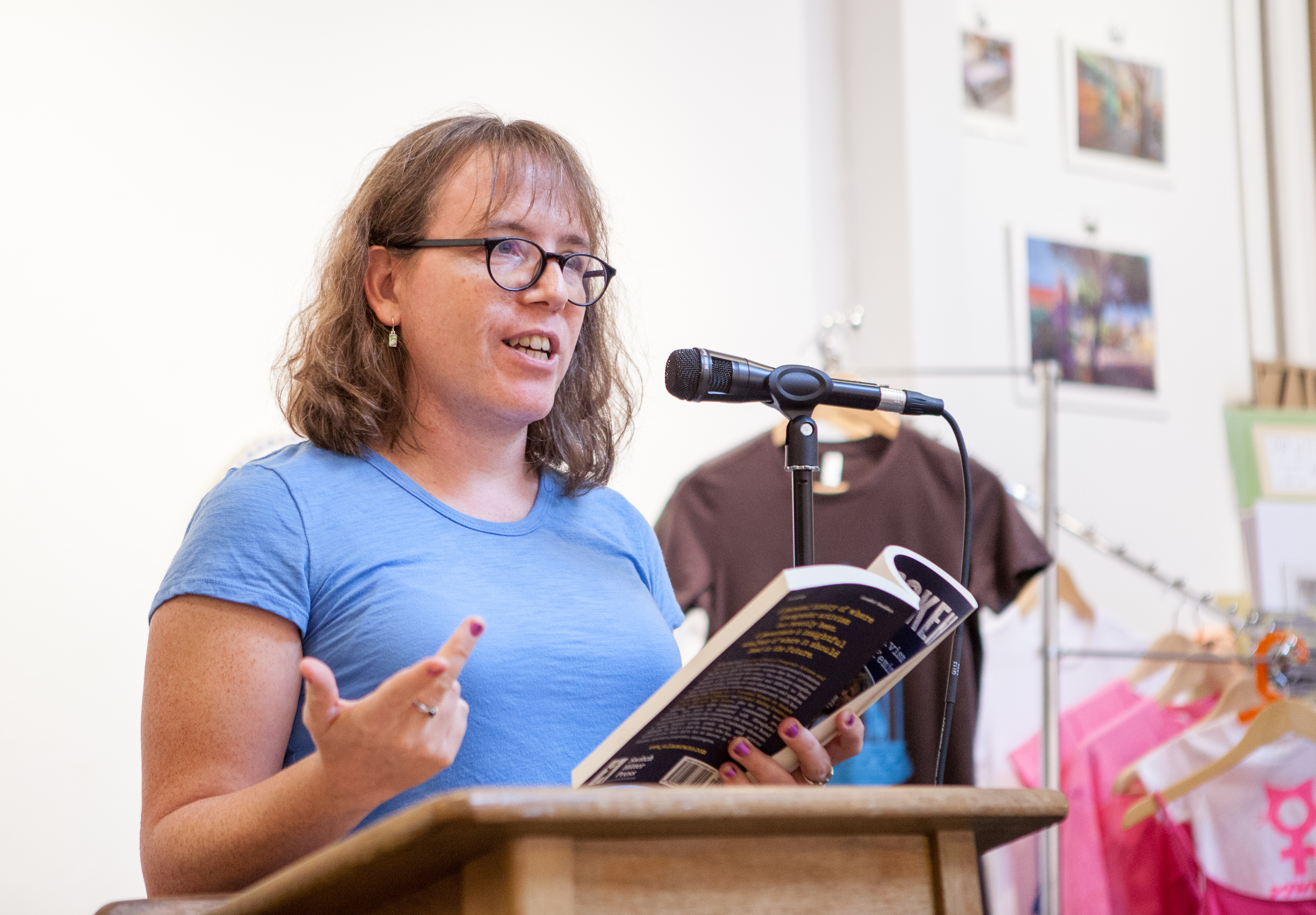 Julia Serano reads from her book "Outspoken" during the "TransAction: Trans Writing as Activism" event in San Francisco.